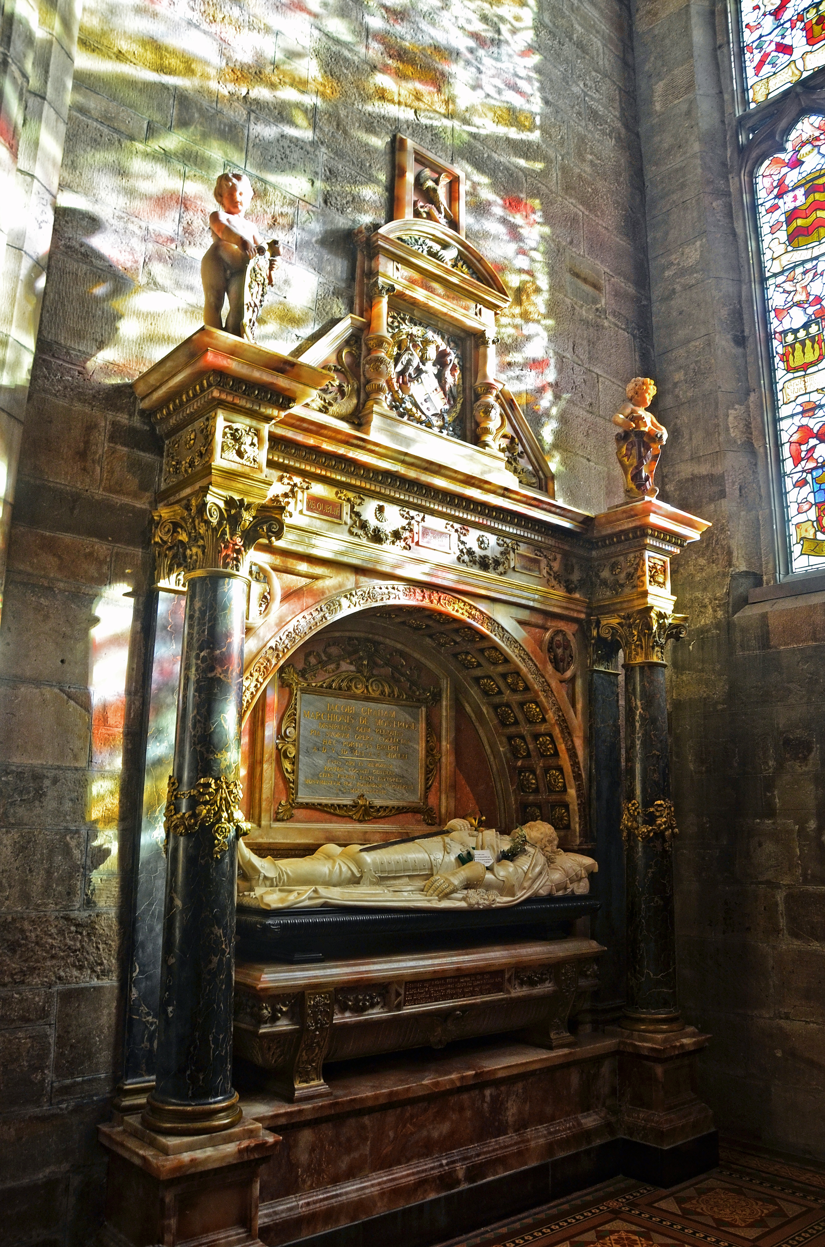 At the High Kirk of St Giles, Edinburgh. James Graham, Marquess of Montrose was a famous soldier who fought on the Royalist side in the 17th century Civil War and was eventually captured and executed, before finally getting this fine monument in Edinburgh's cathedral after the Restoration.